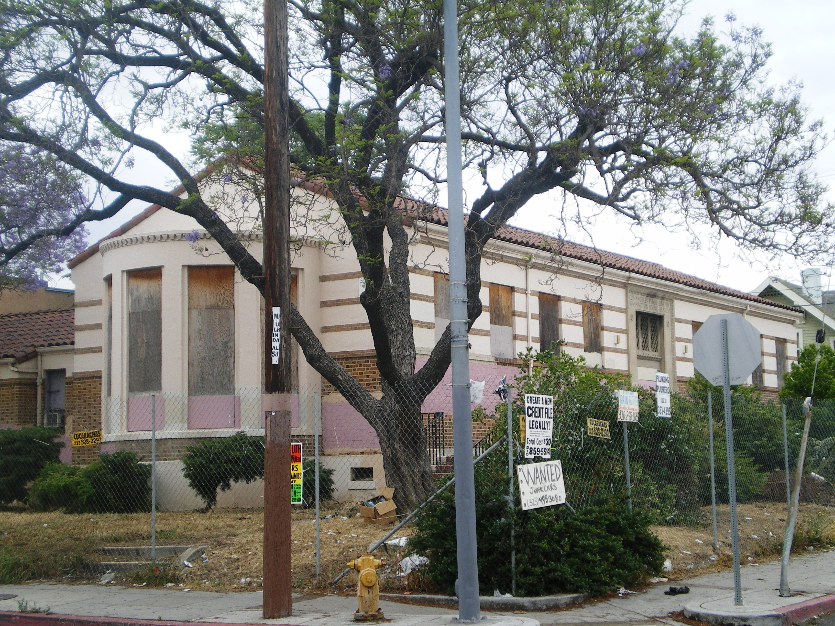 Washington Irving Branch Library, 1803 S. Arlington Ave., Los Angeles, California